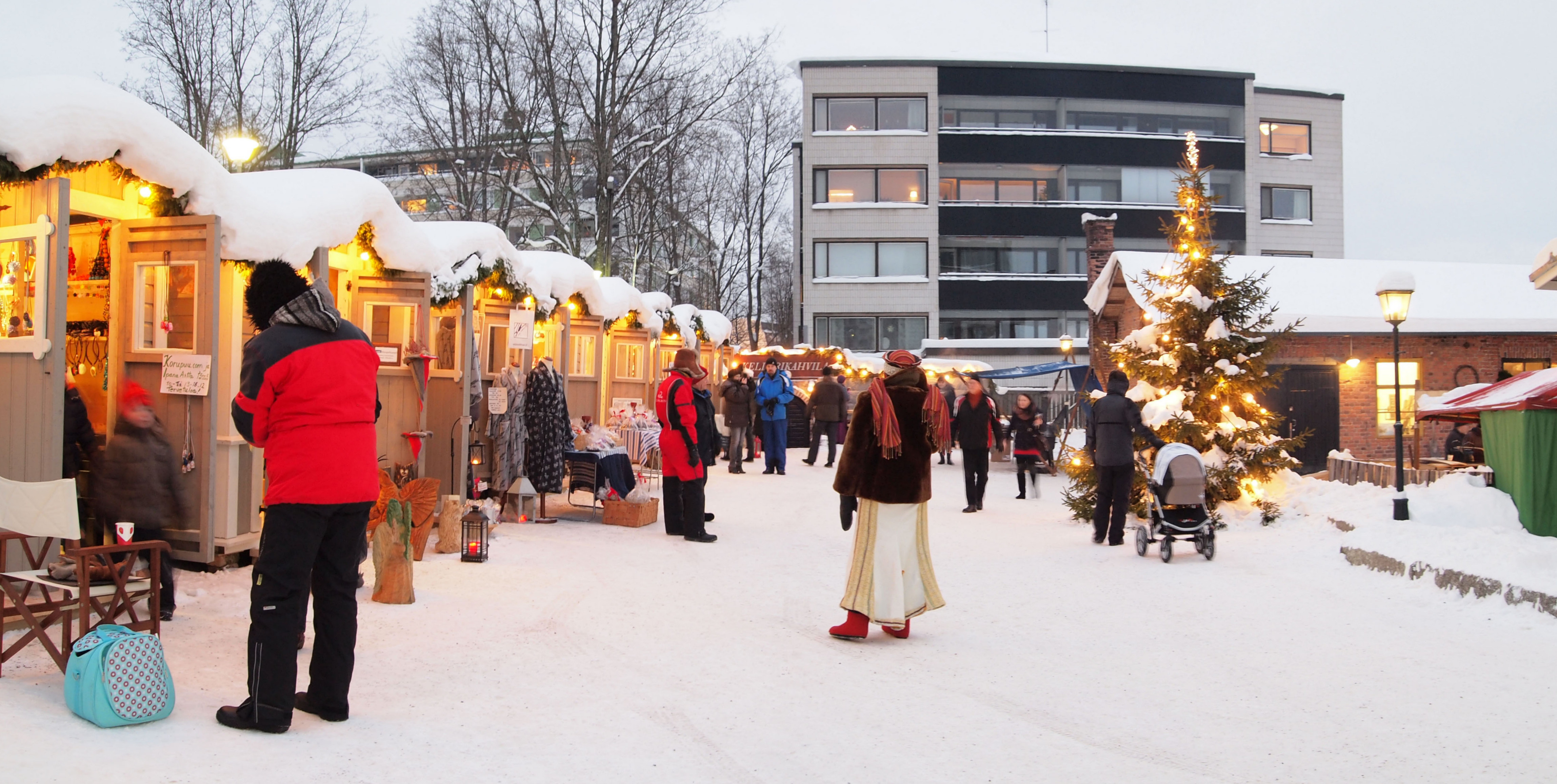 Christmas Garden in Toivola Old Yard, Jyväskylä.